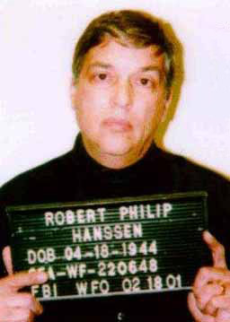 Robert Philip Hanssen; former FBI agent convicted of espionage